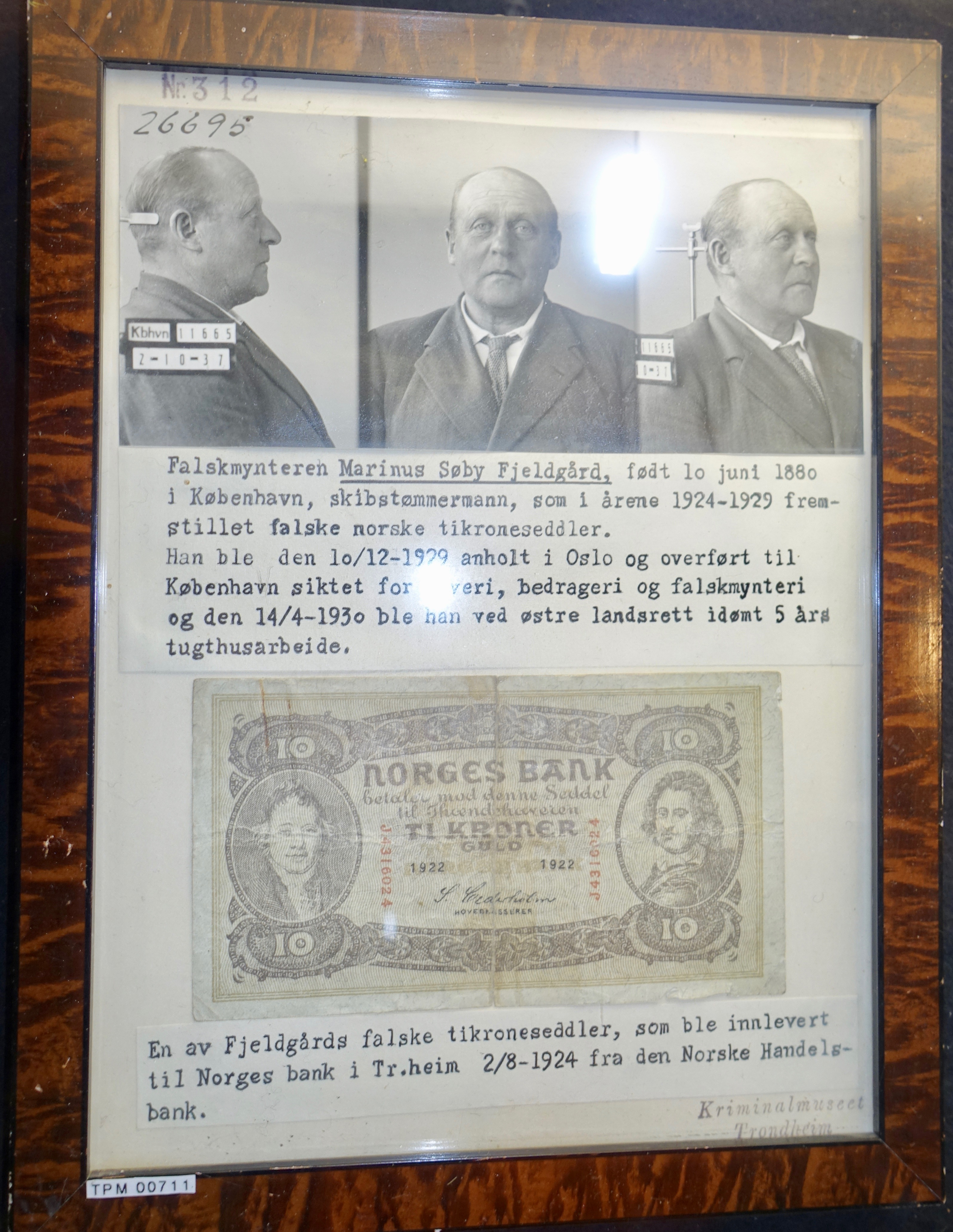 Counterfeit money etc. in Norway exhibited at the Norwegian National Museum of Justice (Justismuseet i det tidligere Kriminalasylet) in Trondheim: Mugshot photo of Danish-born counterfeiter criminal sentenced to 5 years in prison 1930 for forging false Norwegian money (falskmyntner Marinus Søby Fjeldgård og falsk tikroneseddel 1924). Photo taken on 4th April 2019.